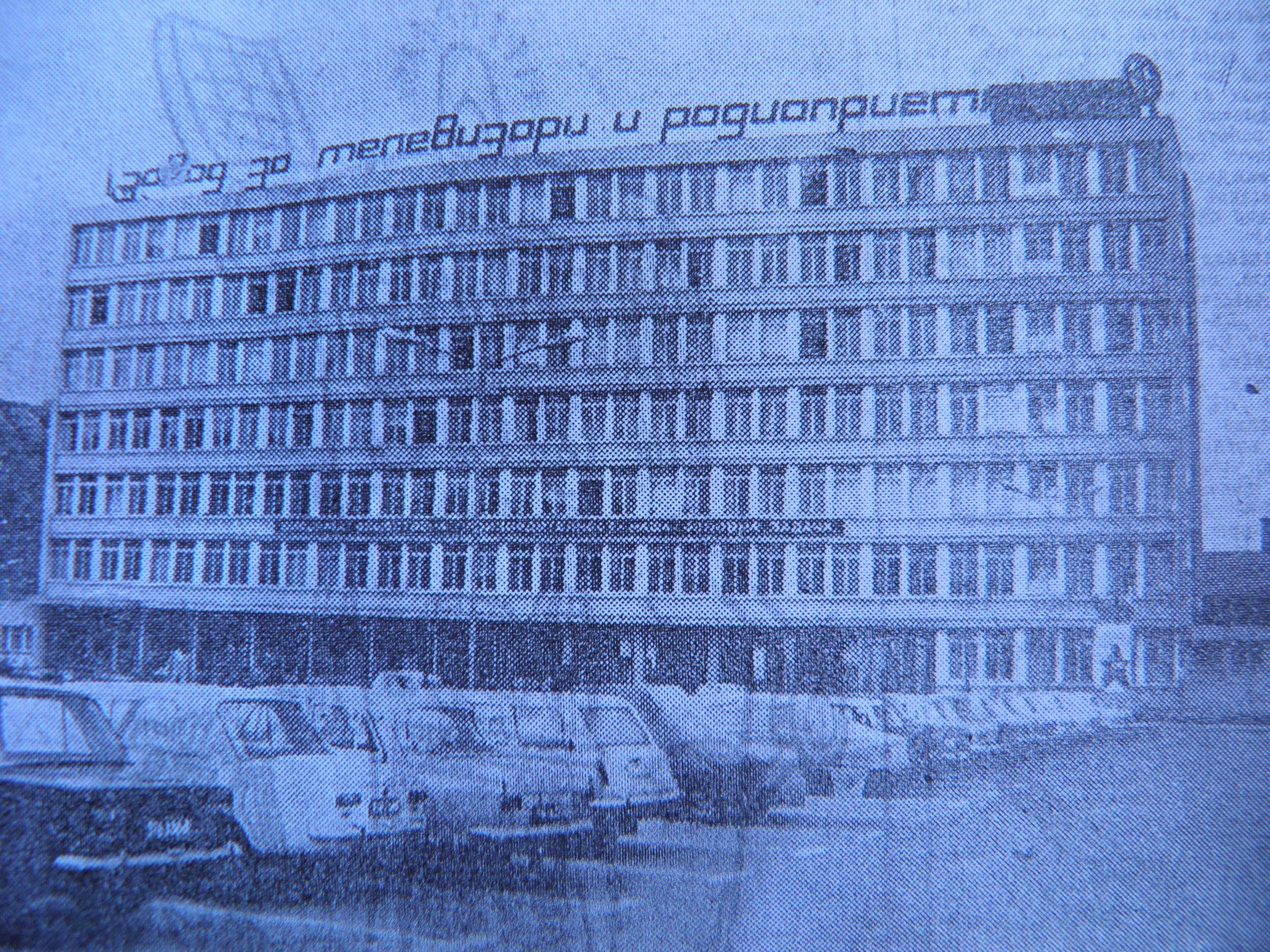 Radiofactory Veliko Tarnovo 1970